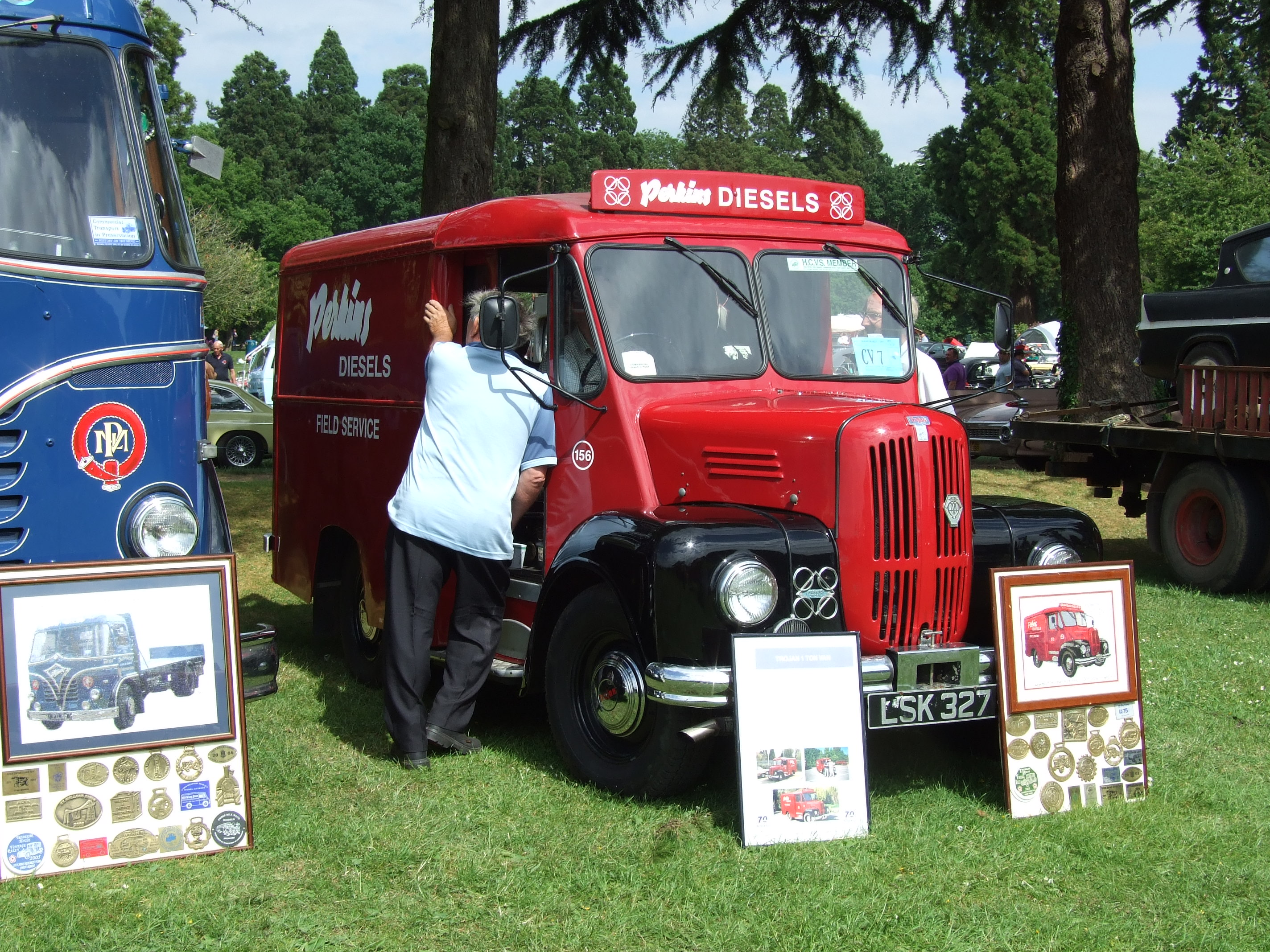 Trojan series 7 one-ton van, 1957-1959